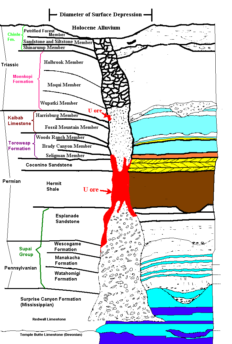 Cross-sectional diagram of a typical collapse-breccia type uranium deposit, northern Arizona, USA